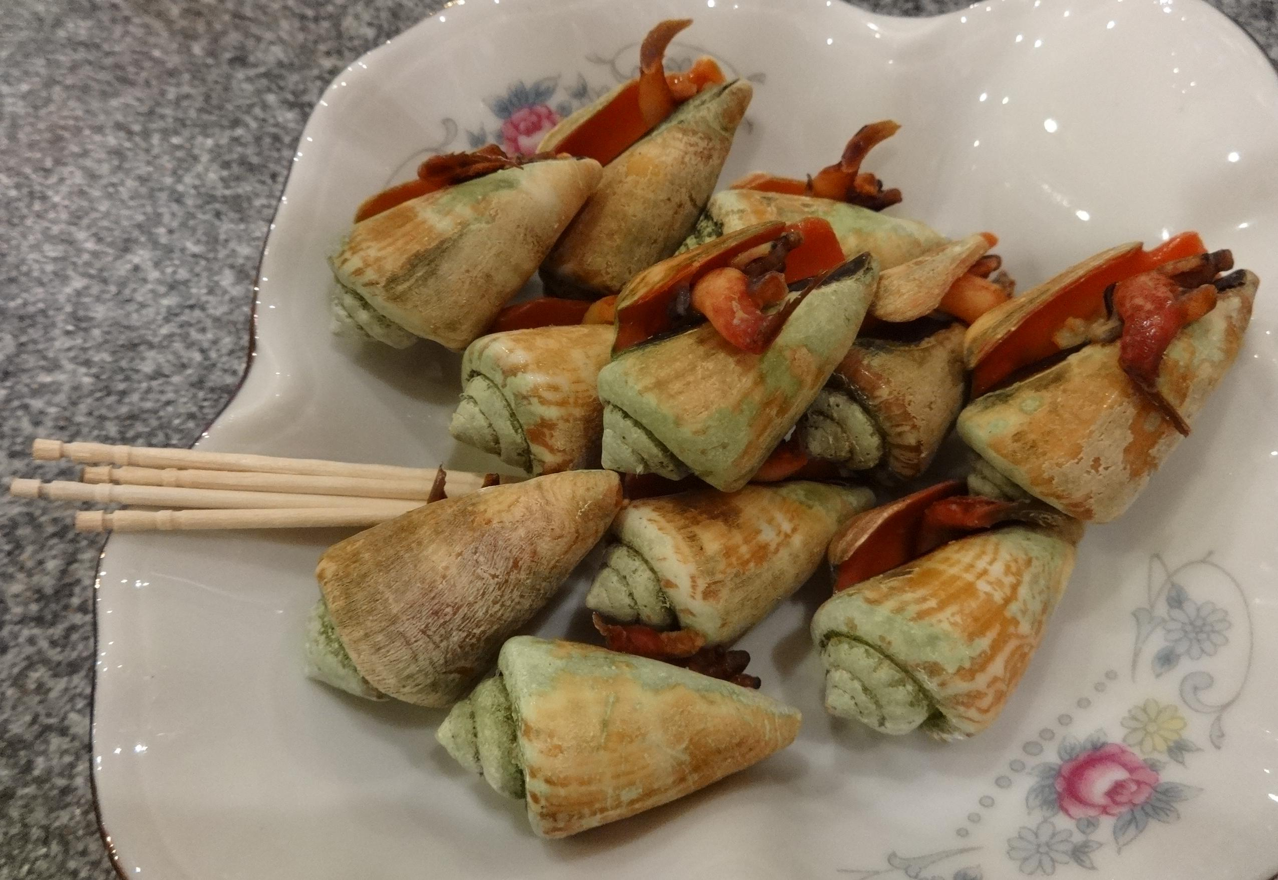 Boiled strawberry conch or Strombus luhuanus of Amami cuisine